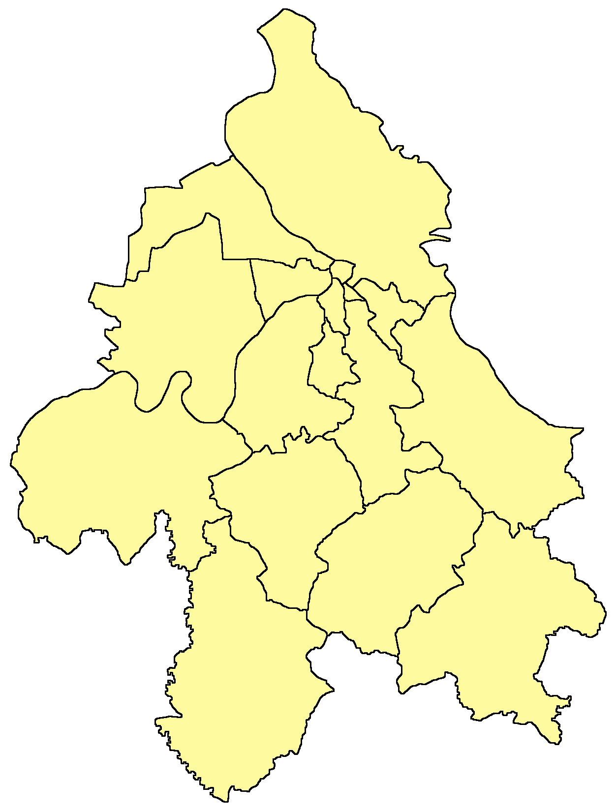 Map of municipalities of Belgrade.